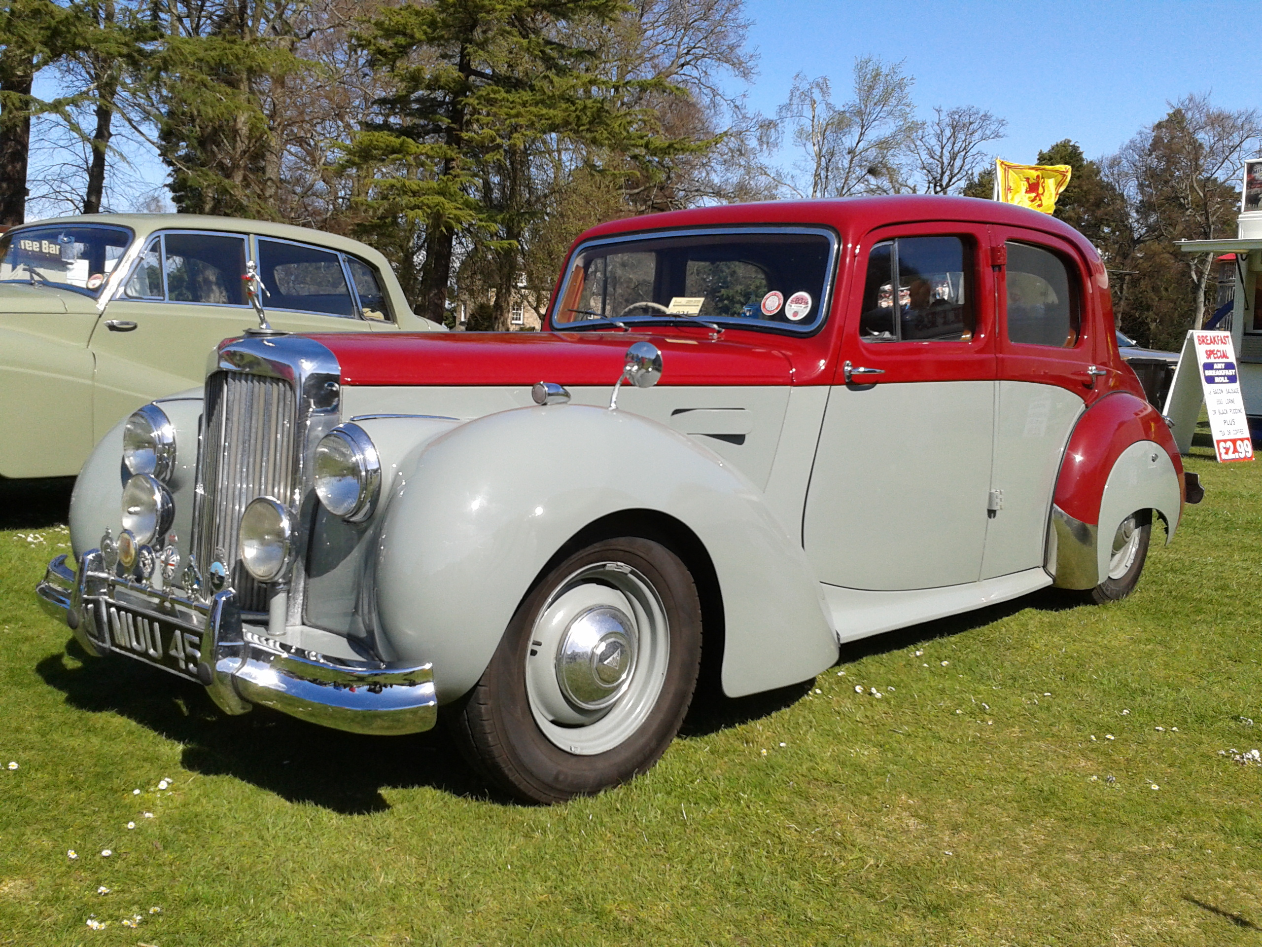 Alvis TA21 sports saloon 1952(DVLA) first registered 13 February 1952, 2993cc